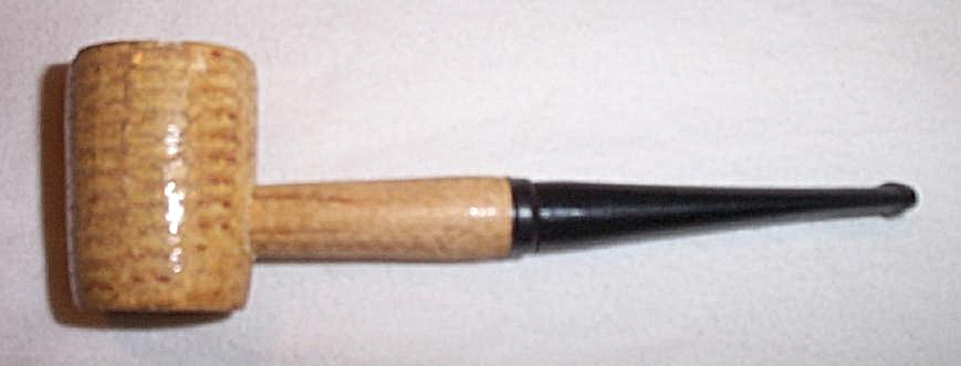 A picture of a corncob pipe.